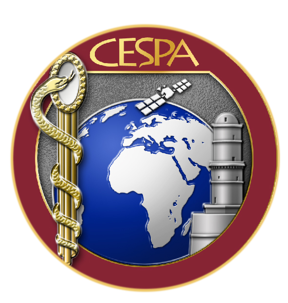 CESPA Badge